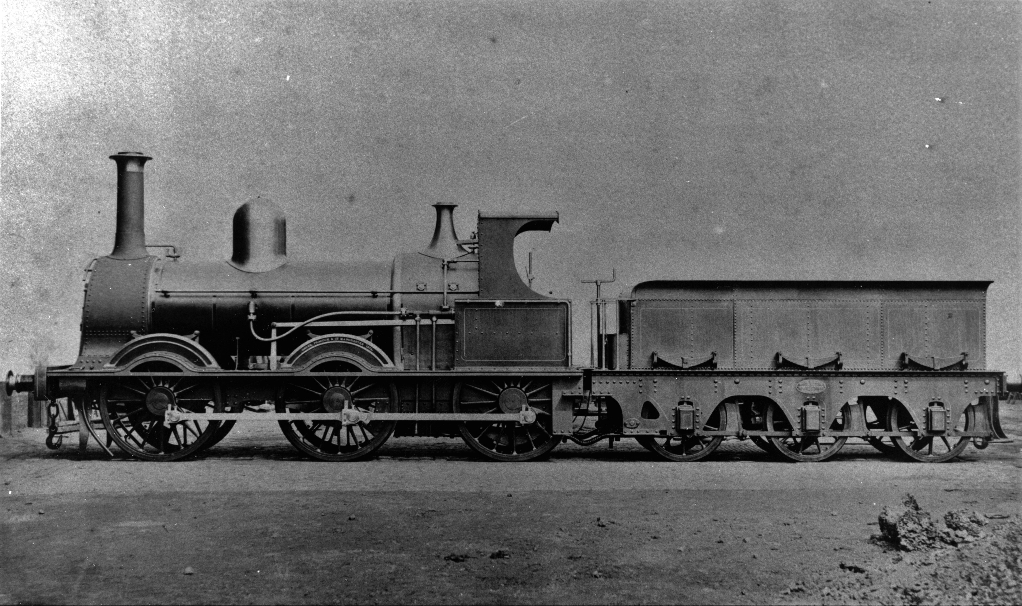 Side view of South Australian Railway 5'3" 0-6-0 J Class loco (with tender) six wheels coupled goods engine manufactured by Beyer, Peacock & Co., Manchester 1874. Part of Mr Henry Coathupe Mais collection.